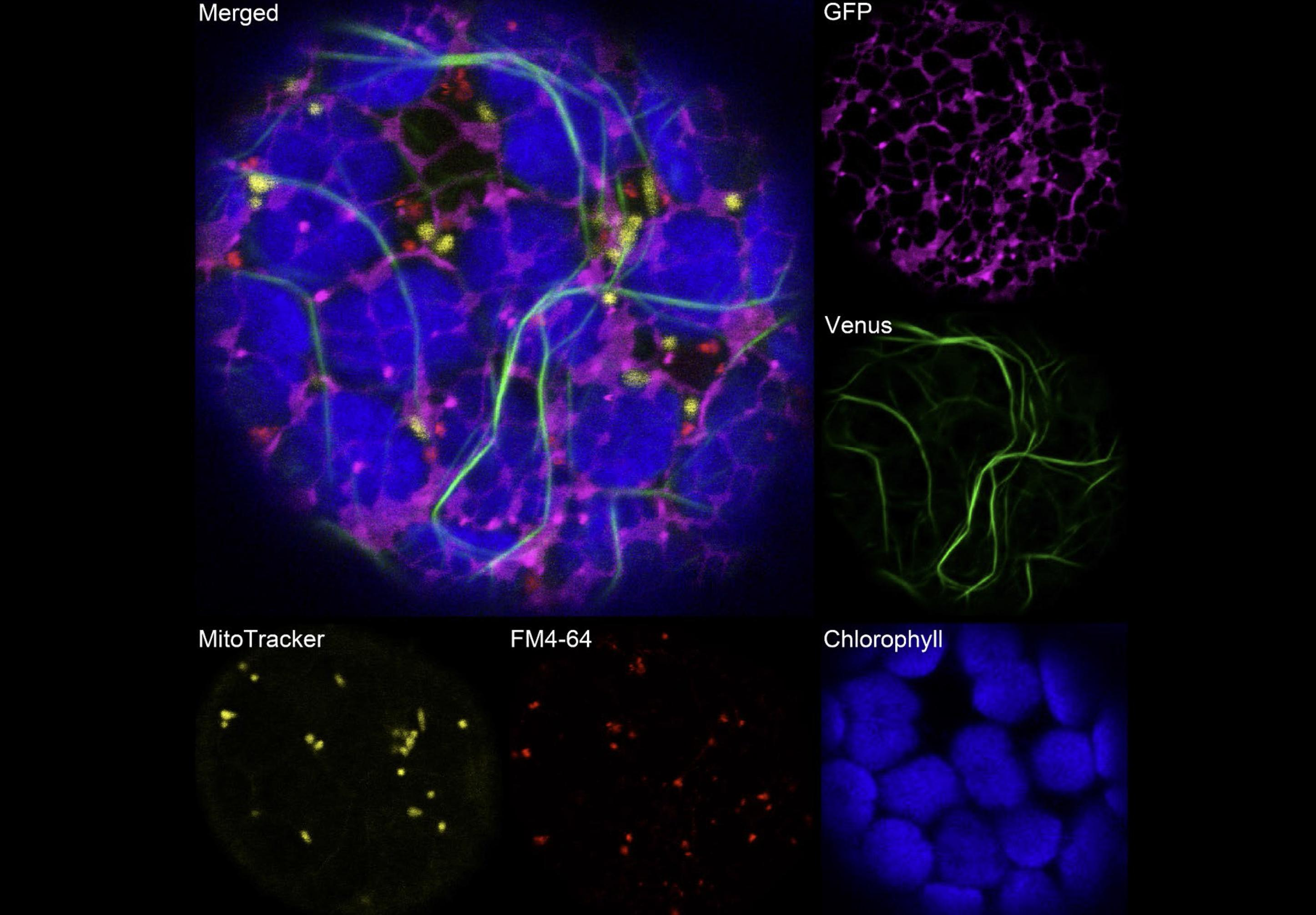 Five-color live cell observation of organelles in Marchantia polymorpha thallus cells. Spectral imaging and linear unmixing using the ZEISS Quasar detection technology available in LSM 780 and LSM 880 confocals. Read more: Courtesy of Courtesy of Mr. Kanazawa and Dr. Ueda (University of Tokyo). Images donated as part of a GLAM collaboration with Carl Zeiss Microscopy - please contact Andy Mabbett for details.